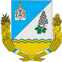 Coat of arms of Kiev-Svyatoshyn Raion, Kiev Oblast.